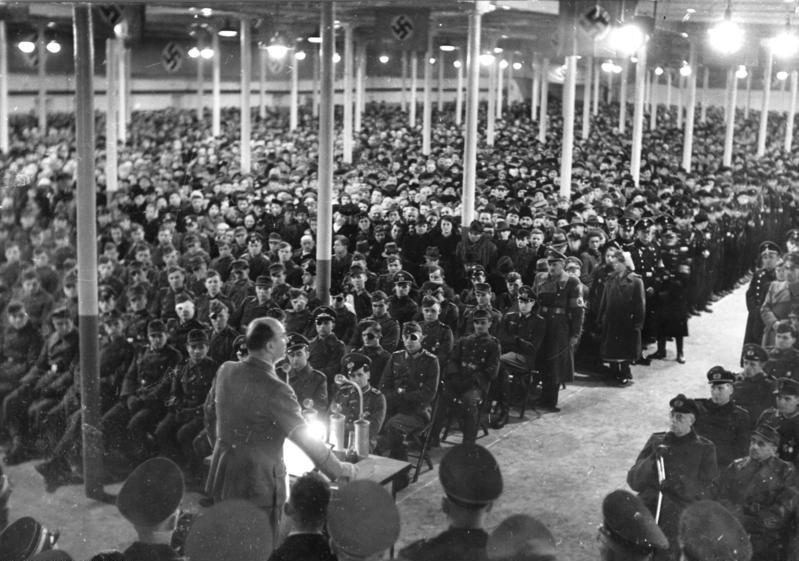 Governor of Warta Country, Arthur Greiser on 15.03.1944 delivers his speech during great rally of SS in "Wool Allart Factory" in Litzmannstadt, 19 Kątna street, for NSDAP, SS officials, wounded soldiers and german colonists on the occasion of the one million German repatriate's settlement from the Soviet Union to the Warta Country, [place: not exists any more - wool spinning hall of "Polmerino" factory, 19 Wroblewski street, now (2013) - a condominium in progress.]